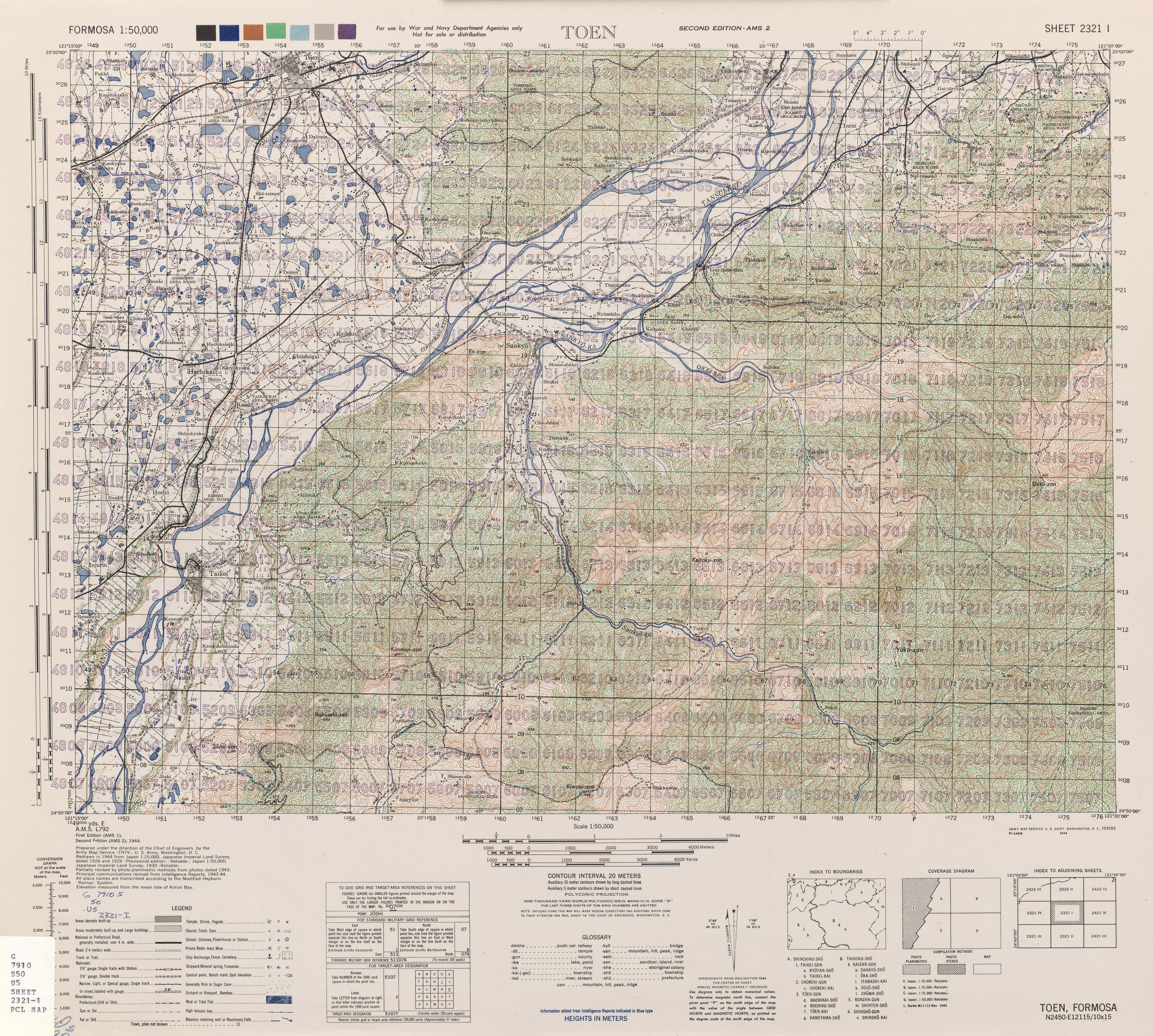 Map from Formosa (Taiwan) 1:50,000 AMS Series L792